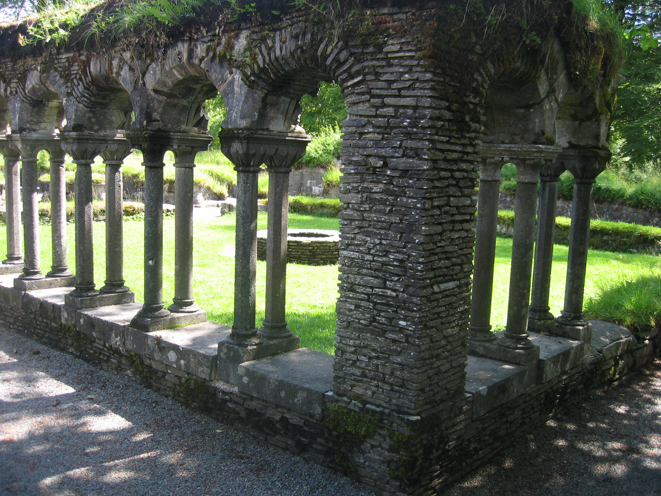 View of the Lysekloster Monastery yard though the remains of the cloister, facing south-east